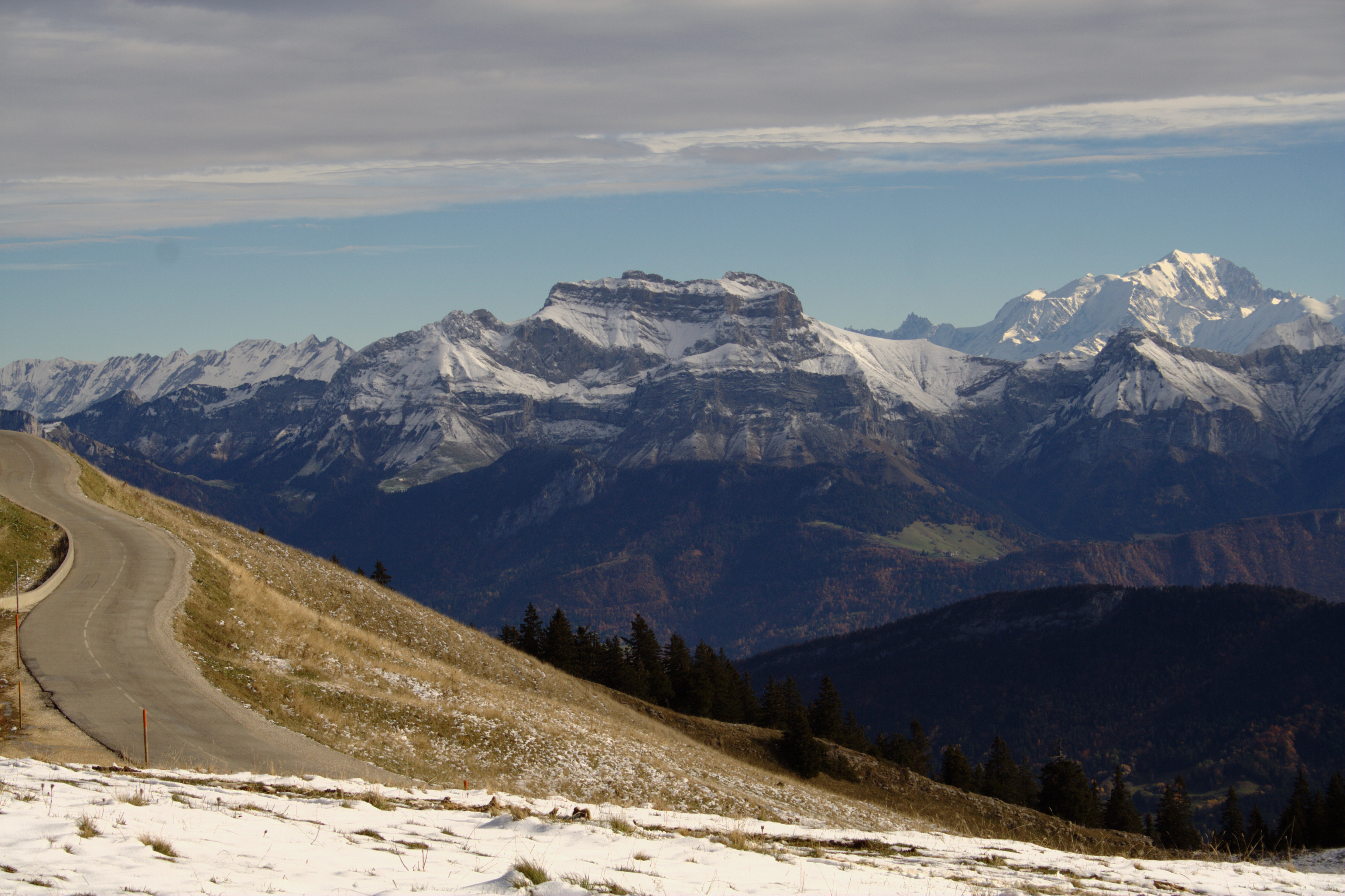 Panorama from the Semnoz, Haute-Savoie, France.